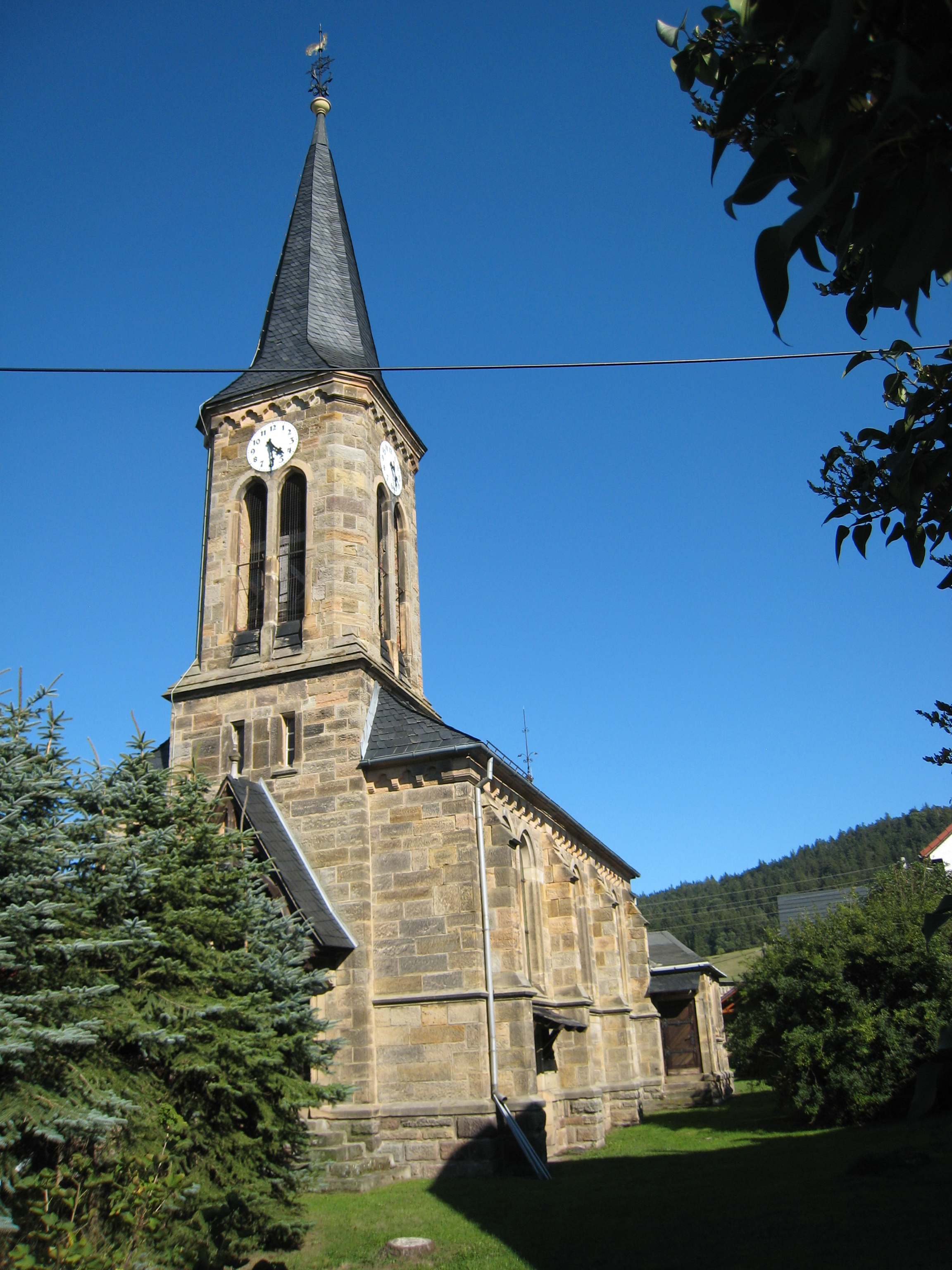 Protestant church of Dörnfeld (Ilmtal)